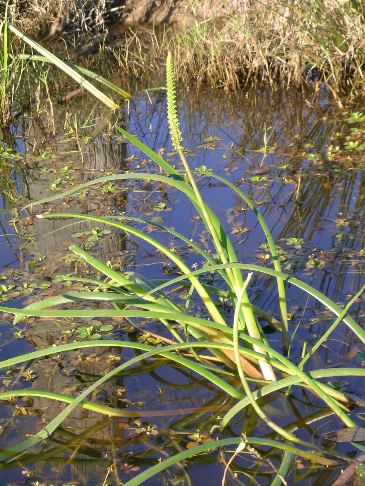 Native, warm season, perennial, rhizomatous herb with roots often ending in tubers. Leaves are strap-like, fleshy and thick, to 2 m long and 3 cm wide; semi-erect or floating. Flowerheads are spike-like and to 30 cm long. Flowers form green globose fruits 5-10 mm long. Flowering is from spring to autumn. Widespread and common in still or slow-flowing (slightly saline to fresh) water of streams and swamps; mostly coastal. Tolerant of high nutrient levels in water. Grows in mud or water to 2 m deep. Fruit are spread by water. Leaves have high digestibility and crude protein. Palatability is variable; leaves are often shunned by livestock, but at other times are readily eaten. Fruits and tubers are eaten by waterbirds. Do not graze below the waterline and allow to flower for best persistence.